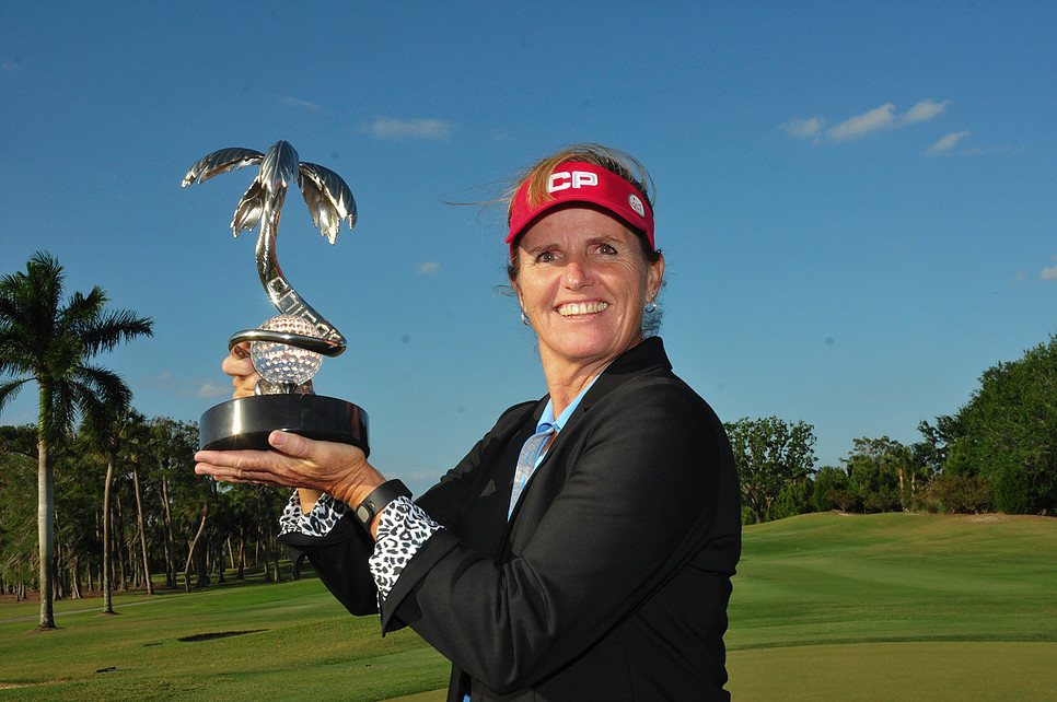 Lorie Kane wins Chico’s Patty Berg Memorial Legends Tour Event, April 2016.